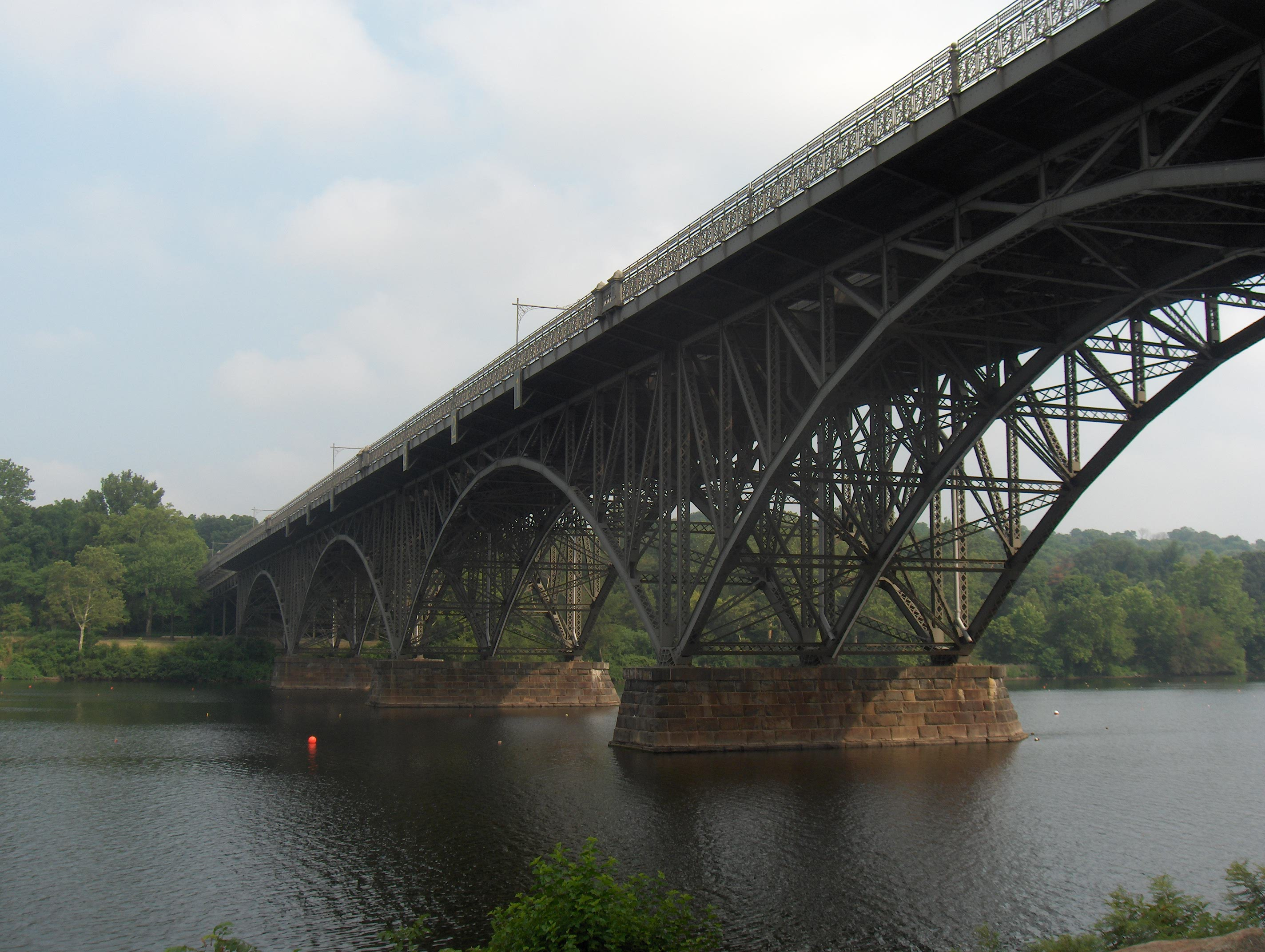 The Strawberry Mansion Bridge, built 1896-97, is a steel arch bridge across the Schuylkill River in Fairmount Park in Philadelphia, Pennsylvania, in the United States. Looking from the Kelly Drive.